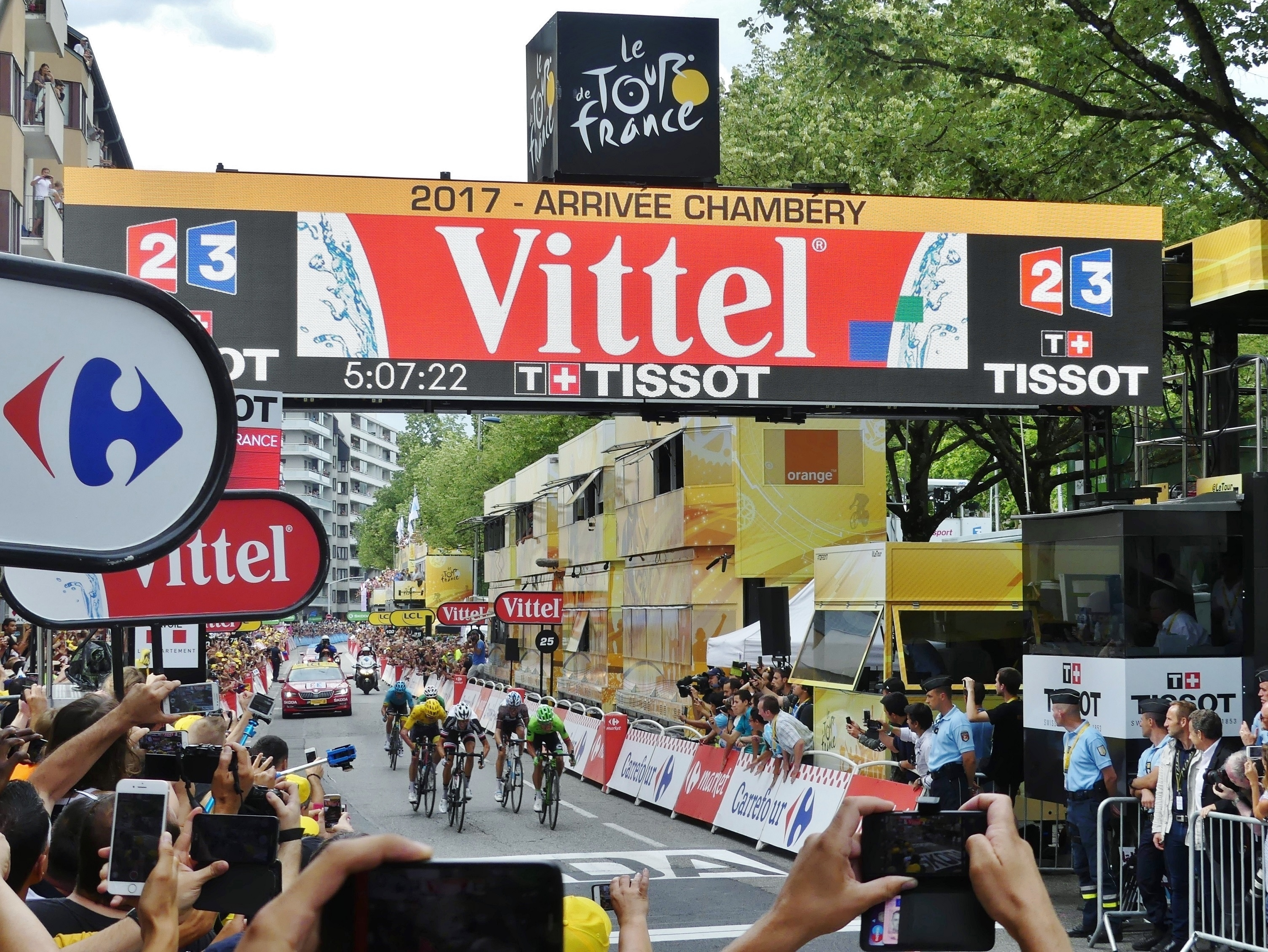 Sight of the final sprint by the six riders, at the finish line of the Tour de France 2017 9th step, in Chambéry, Savoie, France.